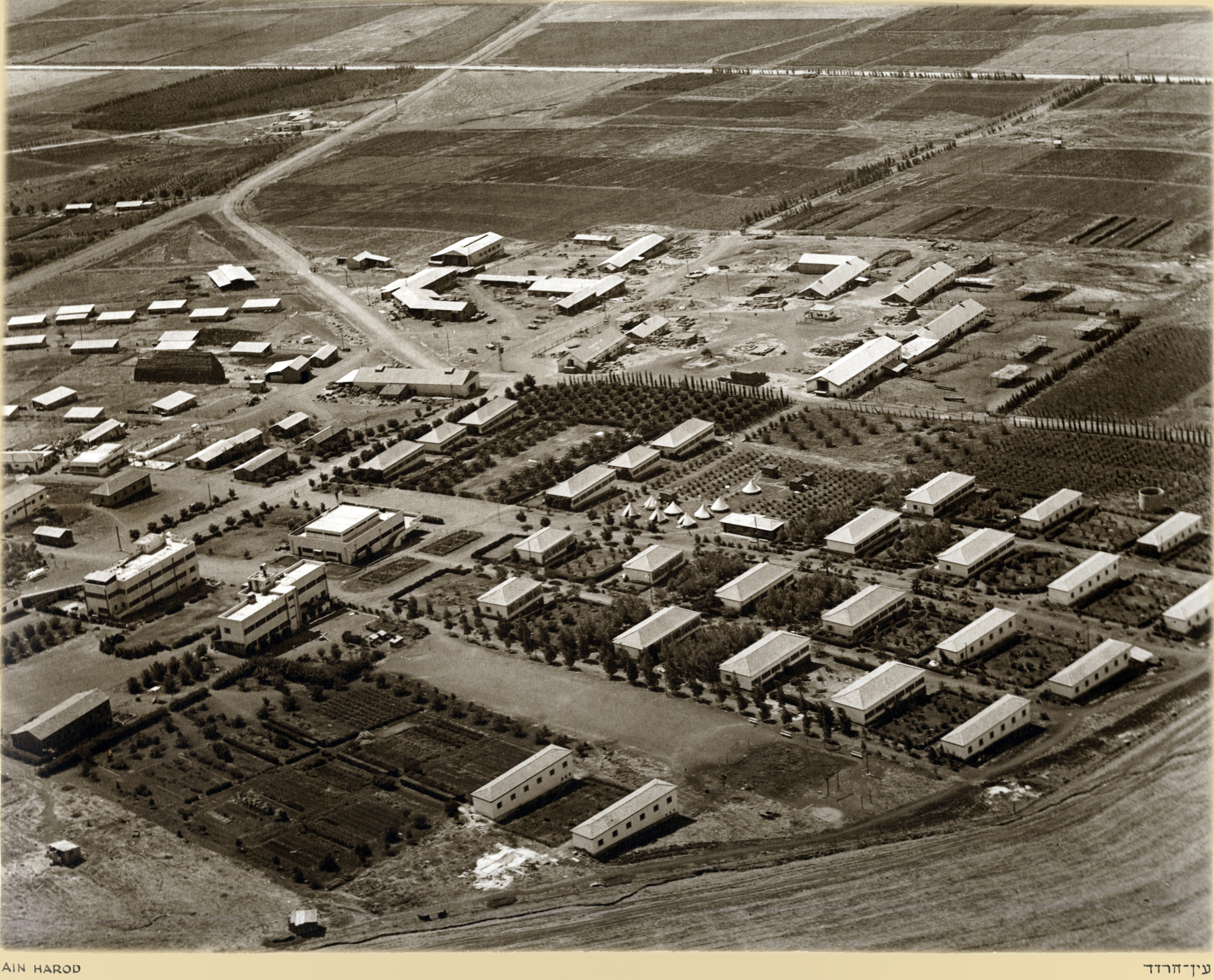 Z. Kluger. Erez Israel from the air - 1937-38